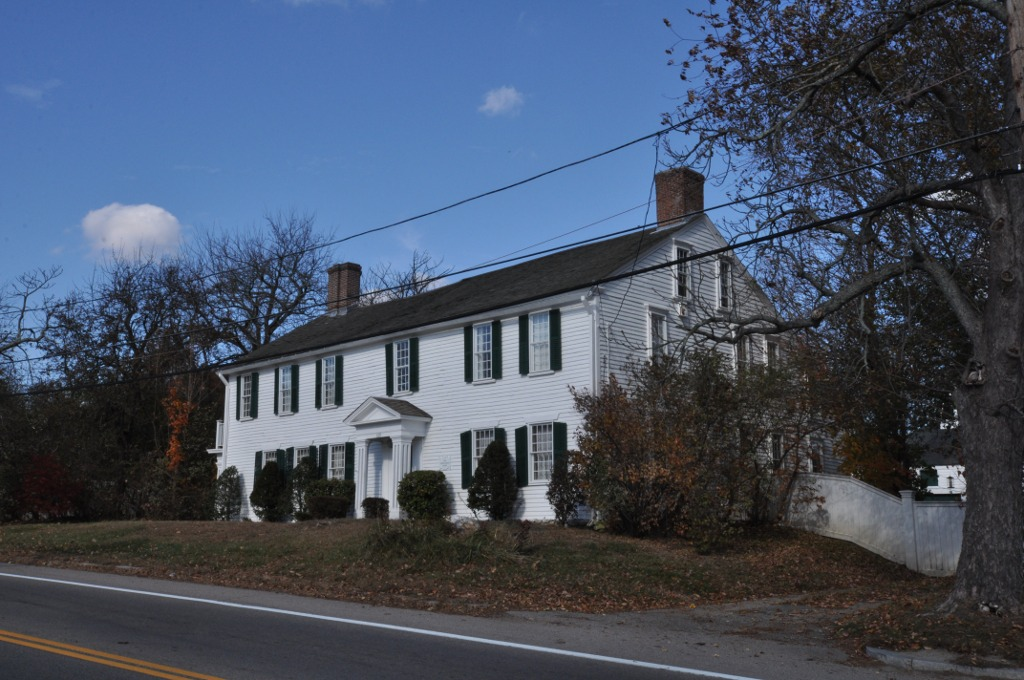 The Joseph Smith House, North Providence, Rhode Island.